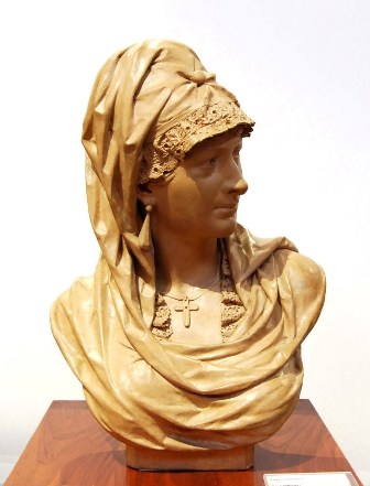 This image was provided to Wikimedia Commons by Biblioteca Museu Víctor Balaguer as part of an ongoing cooperative GLAMWIKI project with Amical Wikimedia. The artifact represented in the image is part of the permanent collection of Biblioteca Museu Víctor Balaguer. This work is free and may be used by anyone for any purpose. If you wish to use this content, you do not need to request permission as long as you follow any licensing requirements mentioned on this page.